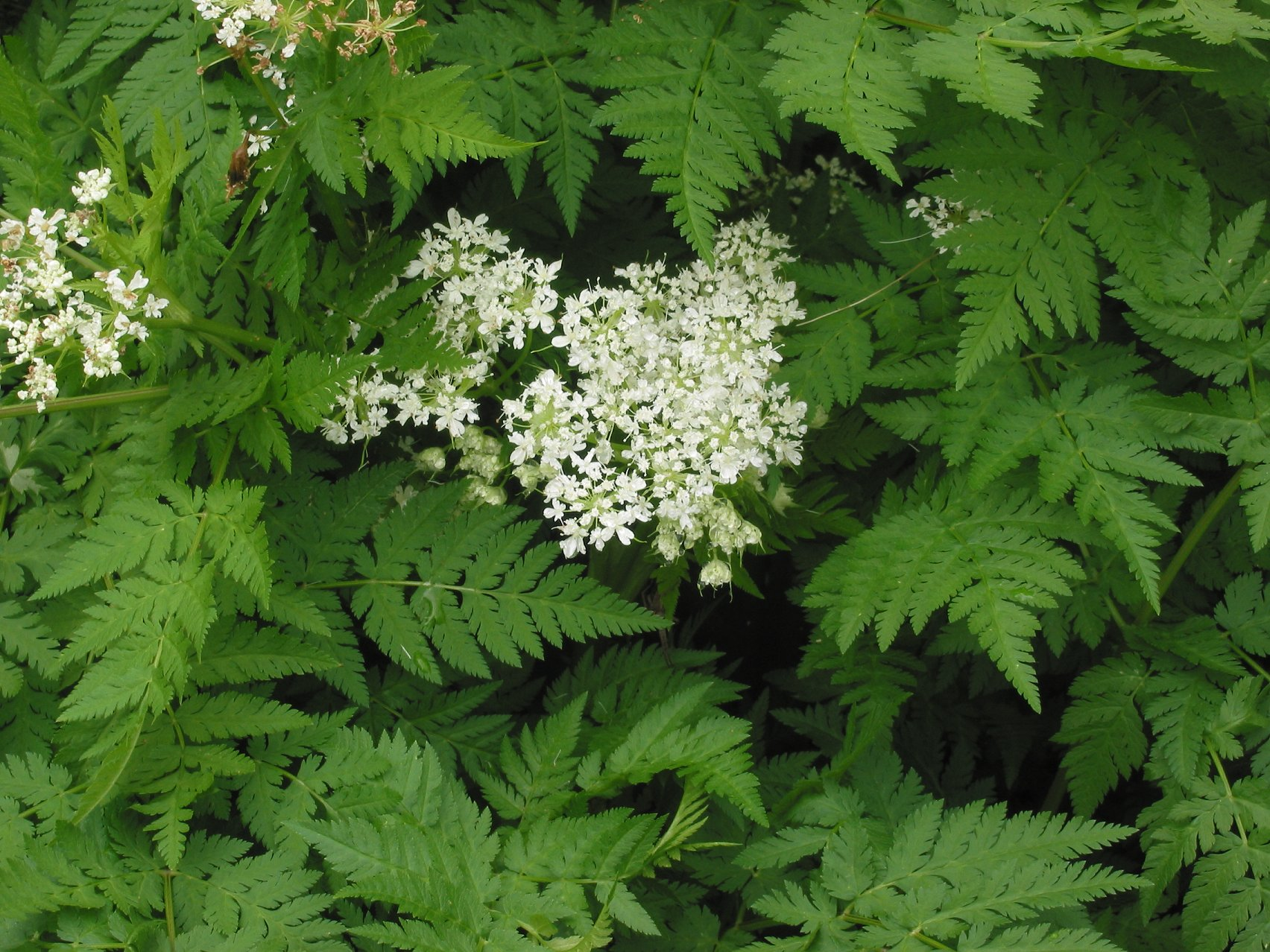 Myrrhis odorata inflorescense